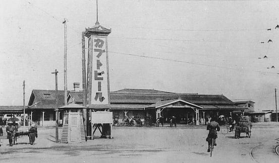 Nagoya Station in Taisho and Pre-war Showa eras